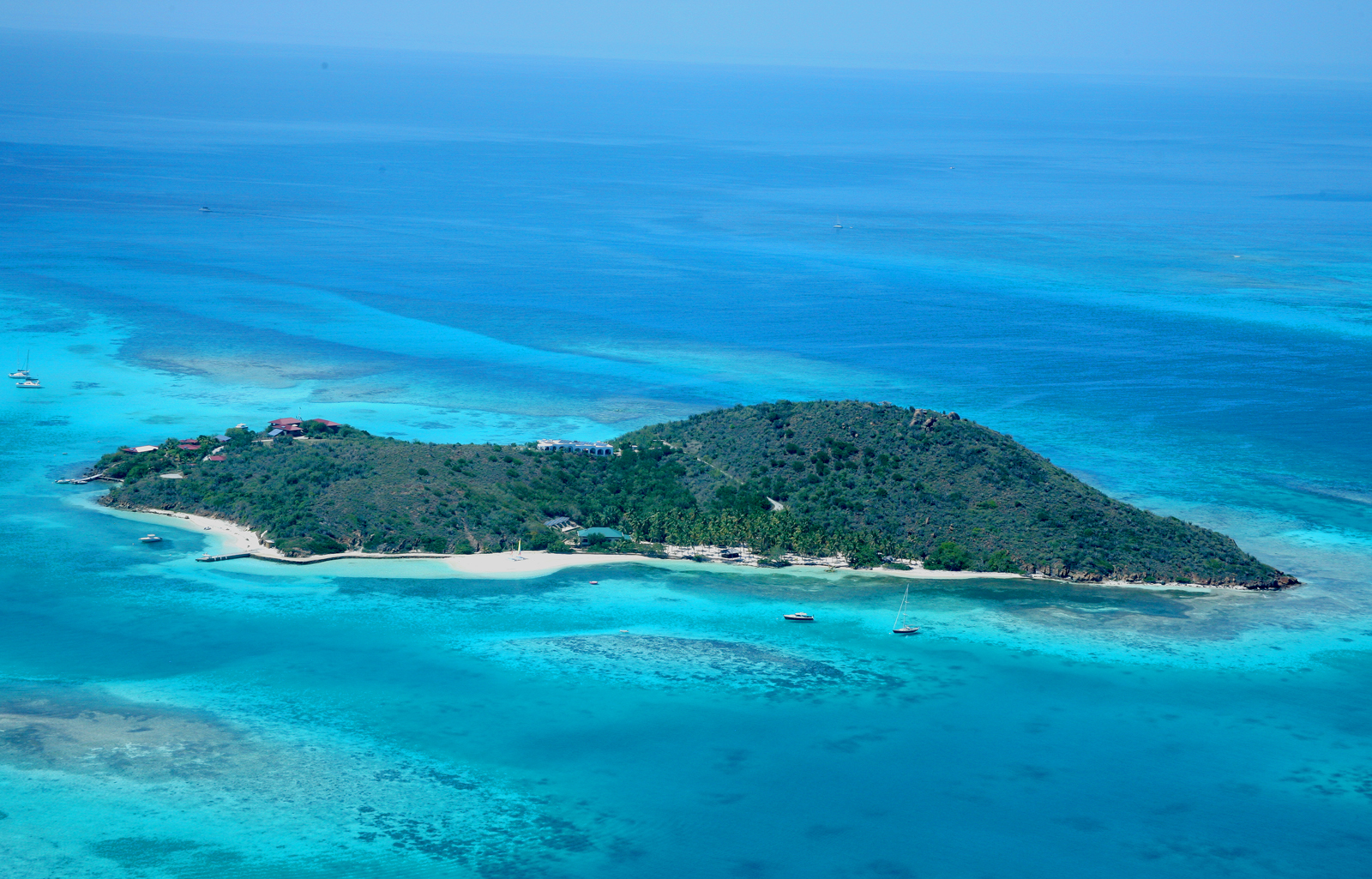 Photograph of Eustatia Island, British Virgin Island in the Caribbean.